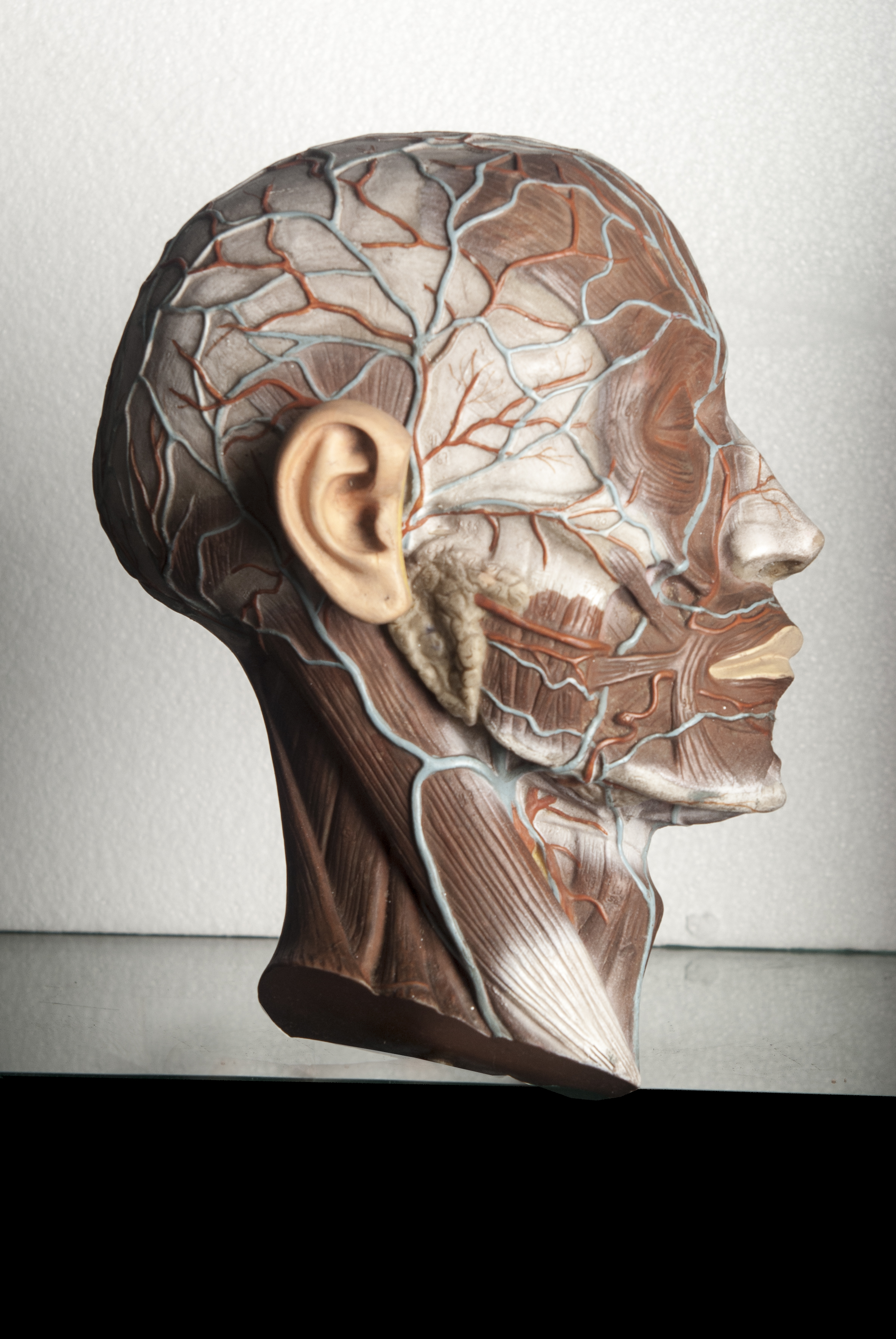 Human facial vascularization. Teaching model representing different parts of the facial vessels on display at the Museum of Veterinary Anatomy, FMVZ USP. This file was published as the result of a partnership between the Museum of Veterinary Anatomy FMVZ USP, the RIDC NeuroMat and the Wikimedia Community User Group Brasil. This GLAM project is reported. Photography: Museum of Veterinary Anatomy FMVZ USP. Author: Wagner Souza e Silva.